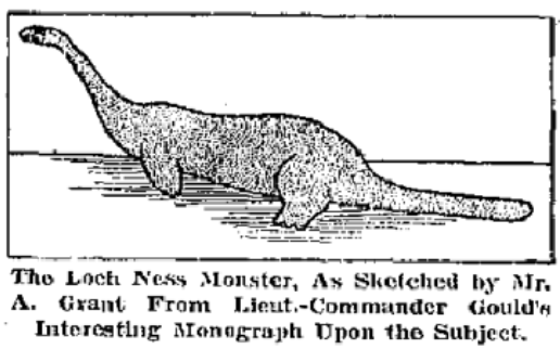 Sketch of the Arthur Grant alleged Loch Ness monster sighting in January 1934.